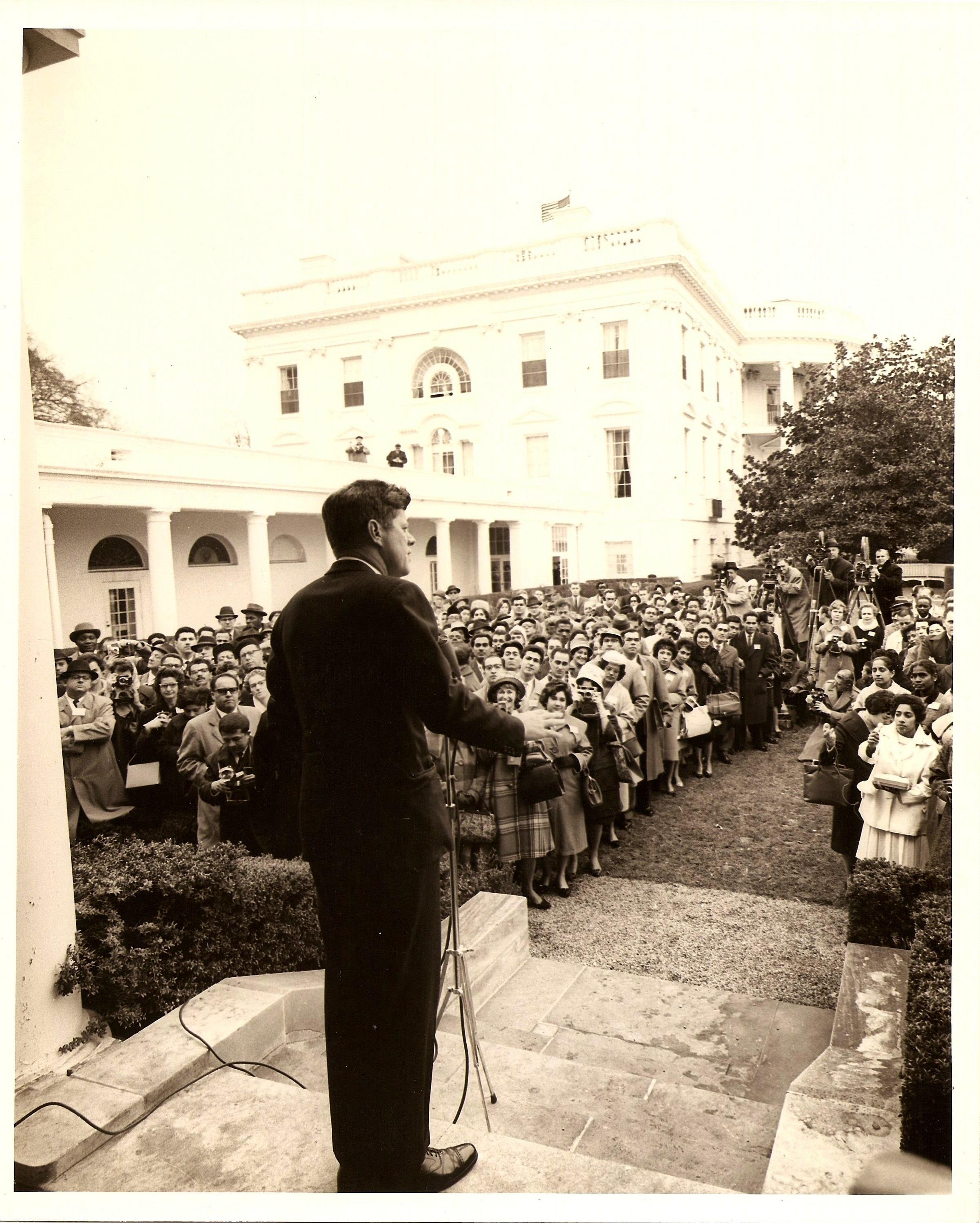 President Kennedy in 1961 at the Rose Garden.